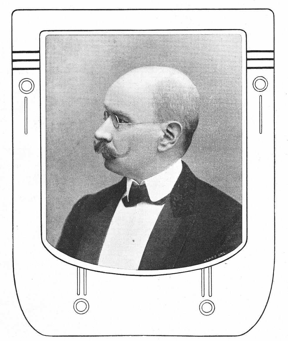 Swedish professor Carl Wahlund (1846-1913).